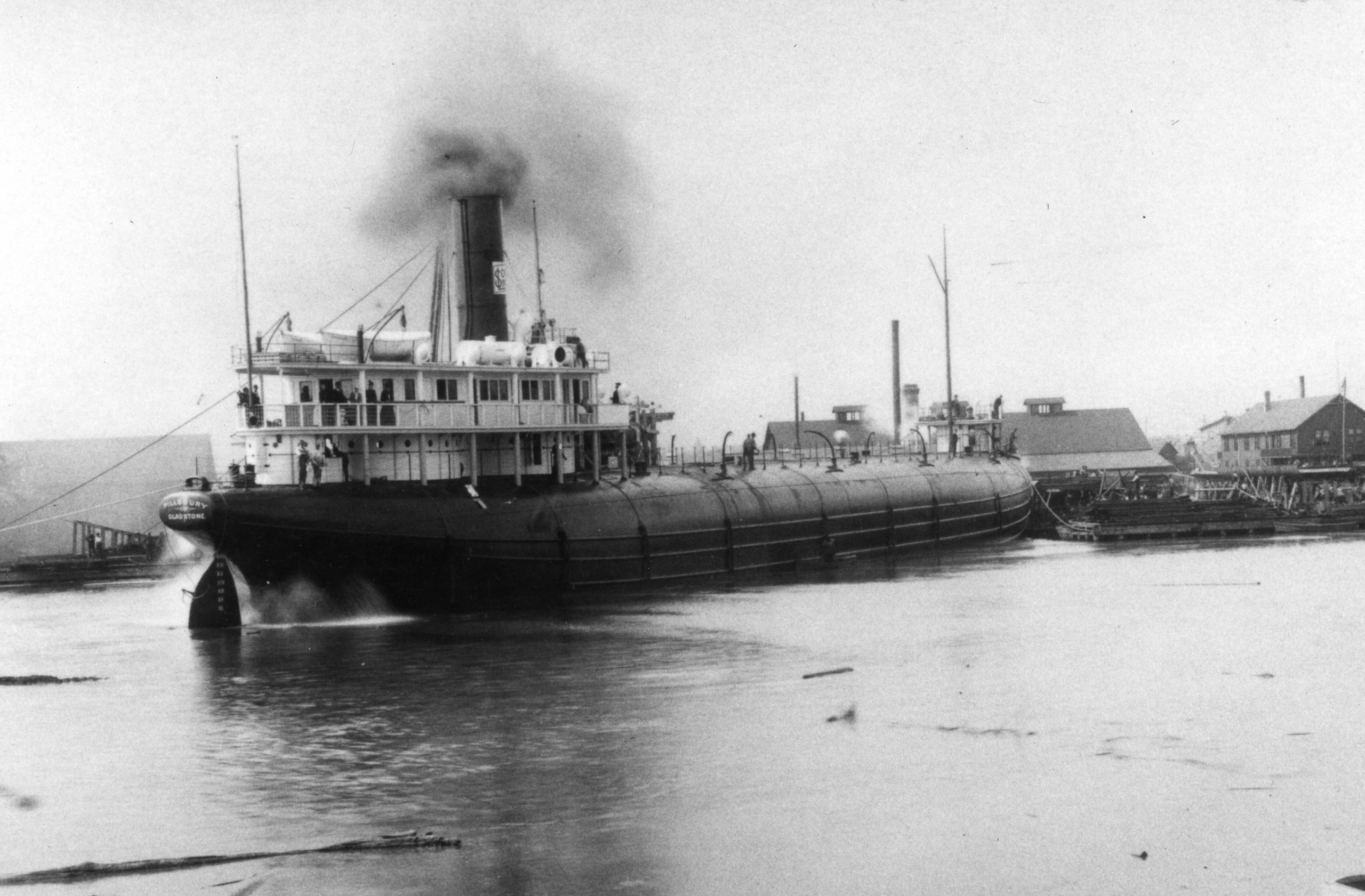 The steamer Henry Cort prior to her sinking